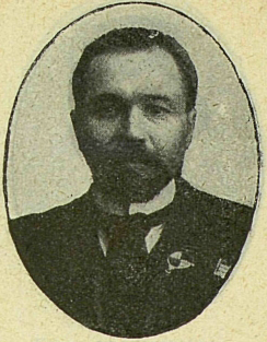 Sergei Alekseevich Shidlovski, a member of the second Russian State Duma, 1907? the last governor of Liflyandia